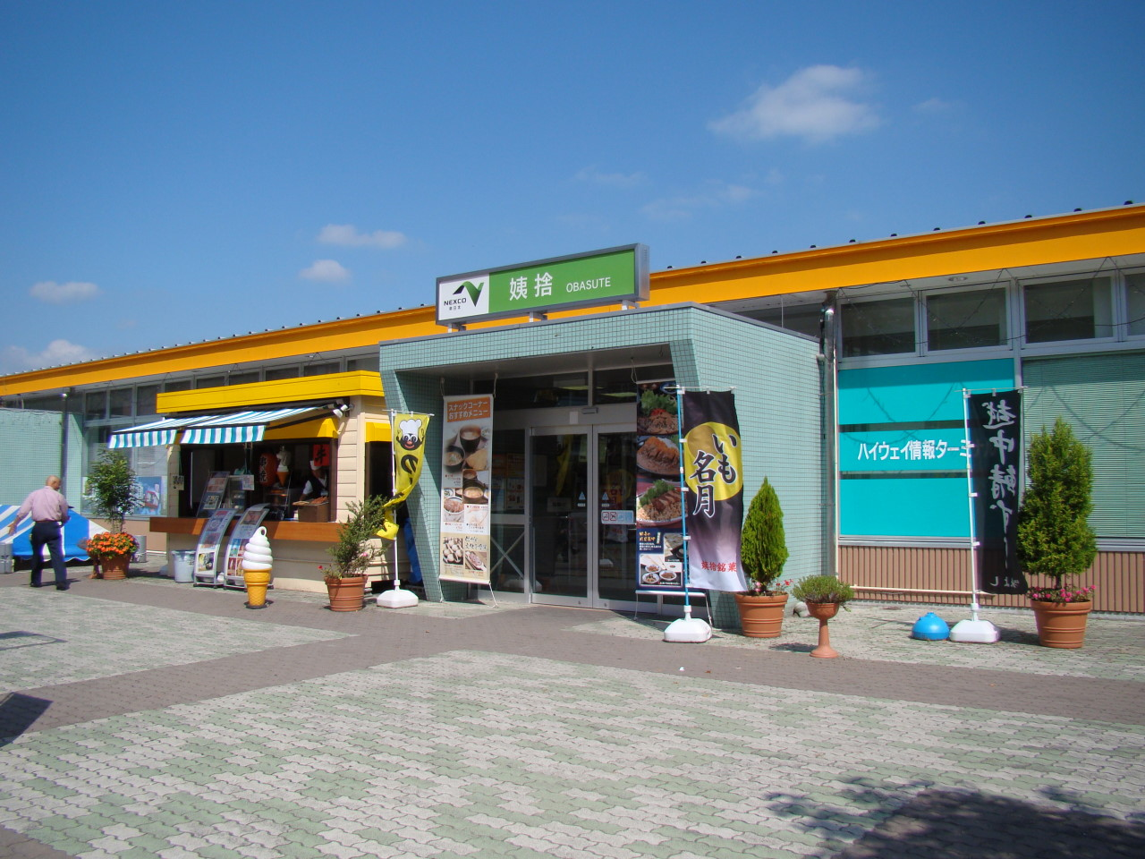 Nagano expressway Obasute service area Koshoku side Nagano Japan